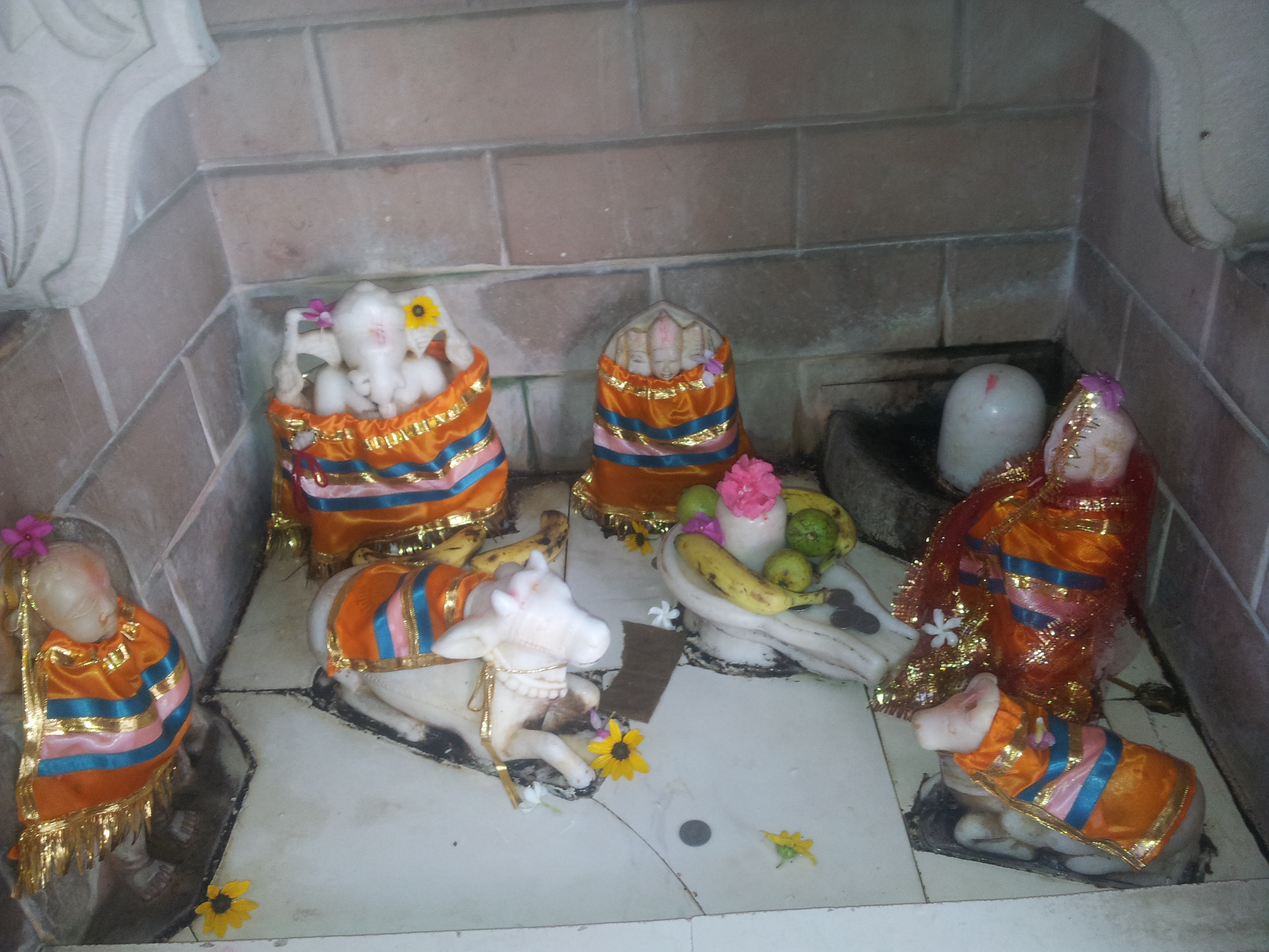 Shiv Pariwaar at Mandir Thakur Shri Saty Narayan Ji.